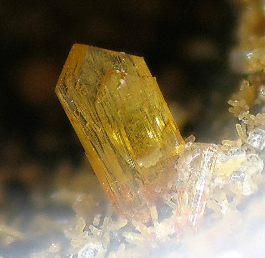 Nealite Locality: Vrissaki Point slag locality, Vrissaki area, Lavrion District slag localities, Lavrion (Laurion; Laurium) District, Attikí (Attica; Attika) Prefecture, Greece Width 2 mm. Collection and Photo Christian Rewitzer